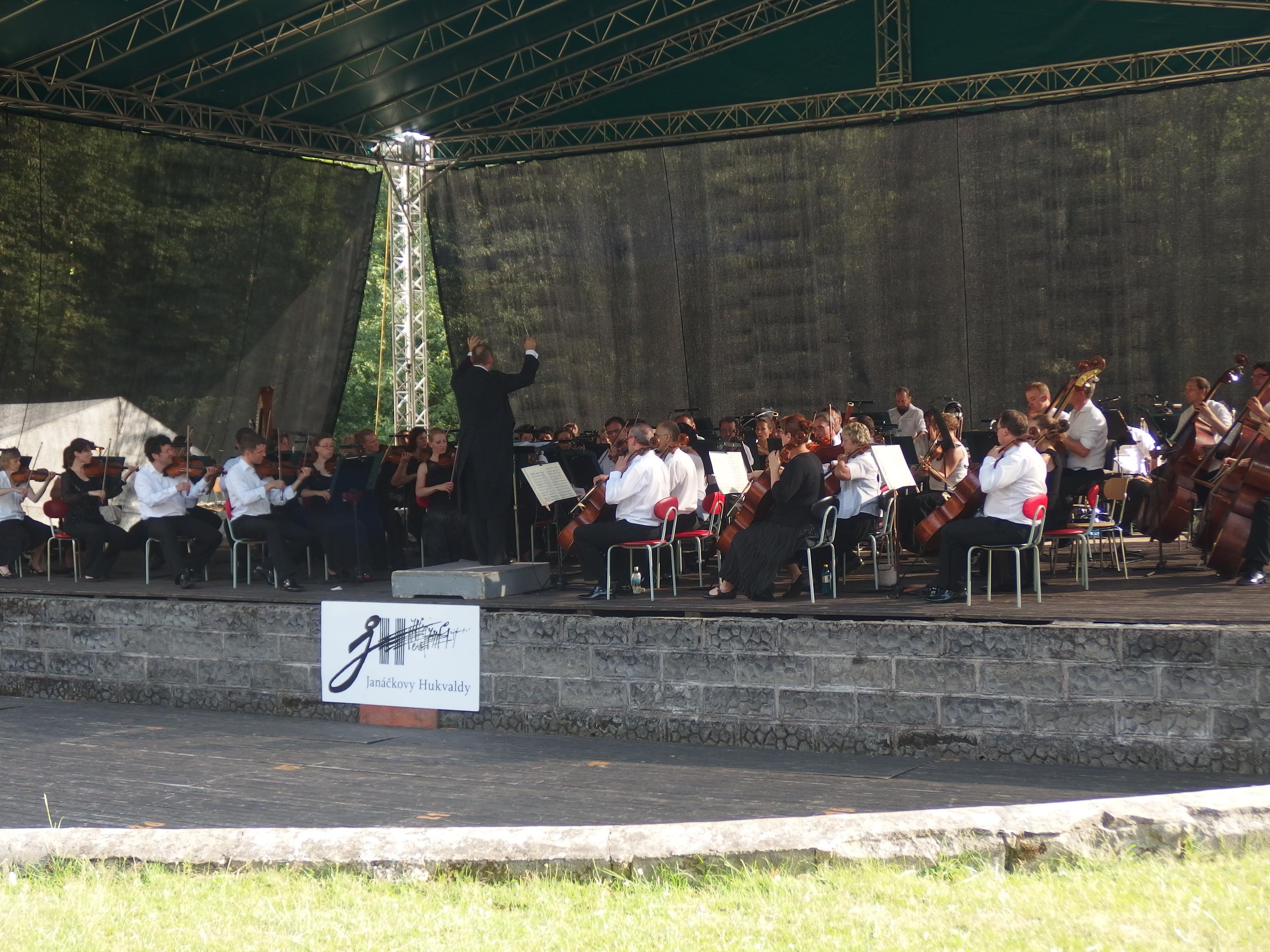 Janáčkovy Hukvaldy 2016, a music festival in Hukvaldy, Czech Republic.